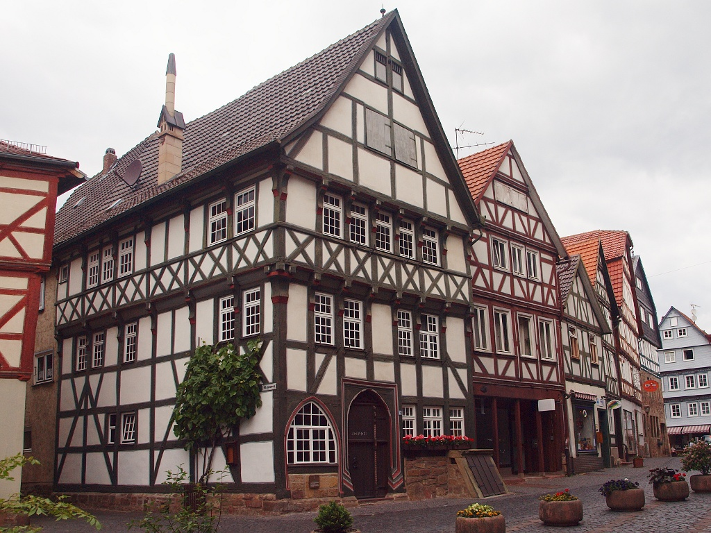 Brüggemeier house, one of the oldest half-timbered houses in Fritzlar. Gothic post construction, built between 1460 and 1470